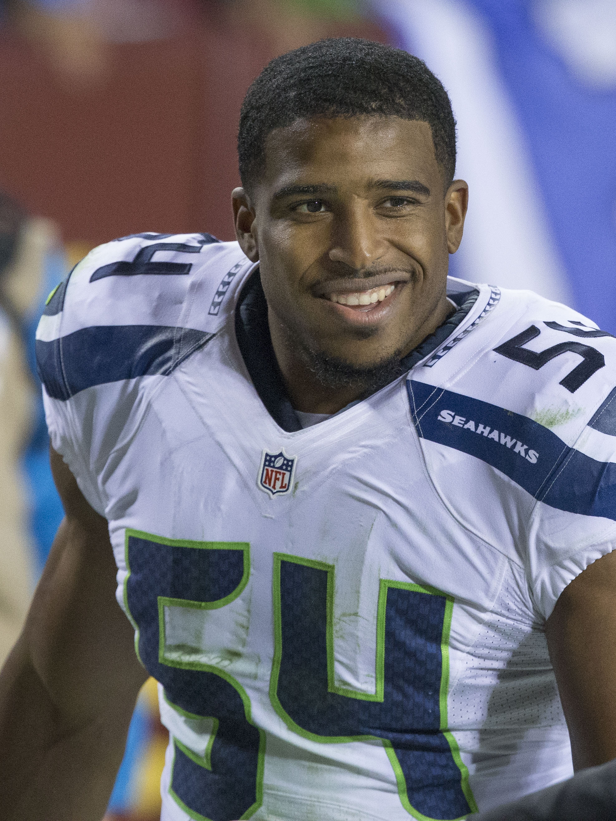 Seahawks at Redskins 10/6/14